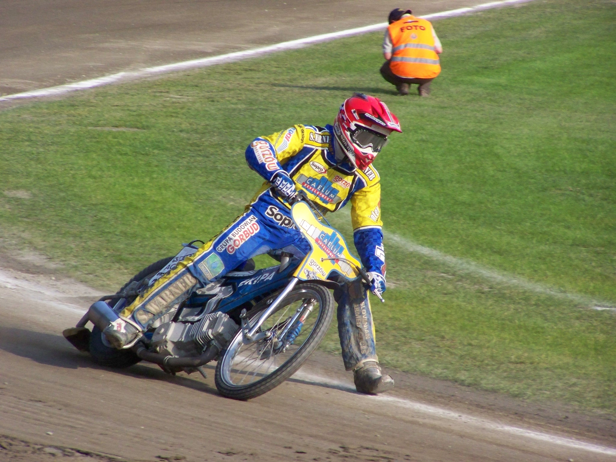 Slovenian speedway rider Matej Žagar during one of Stal Gorzów's matches (2010)